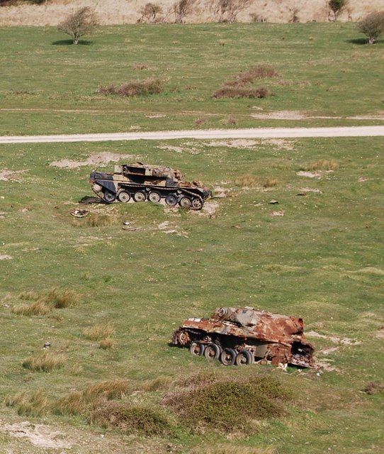 Well used Chieftain tanks! Found on the Lulworth Ranges